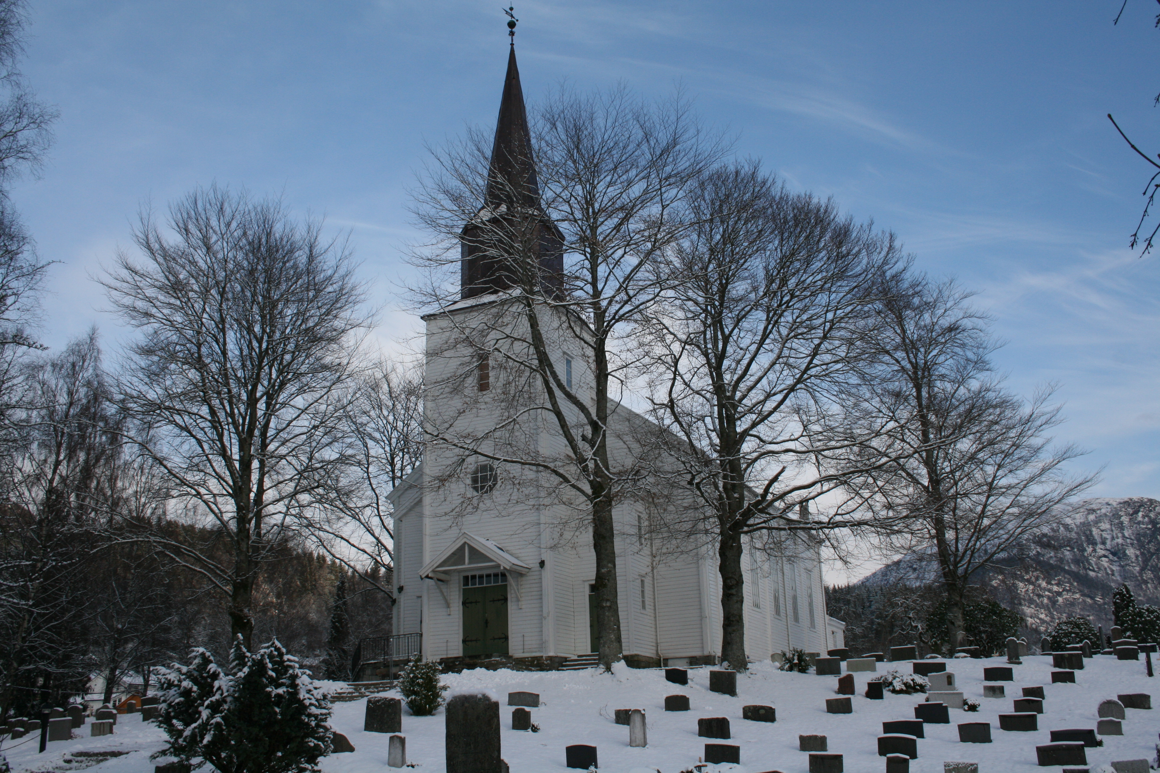 Førde church in Førde kommune, Sogn og Fjordane, Norway.